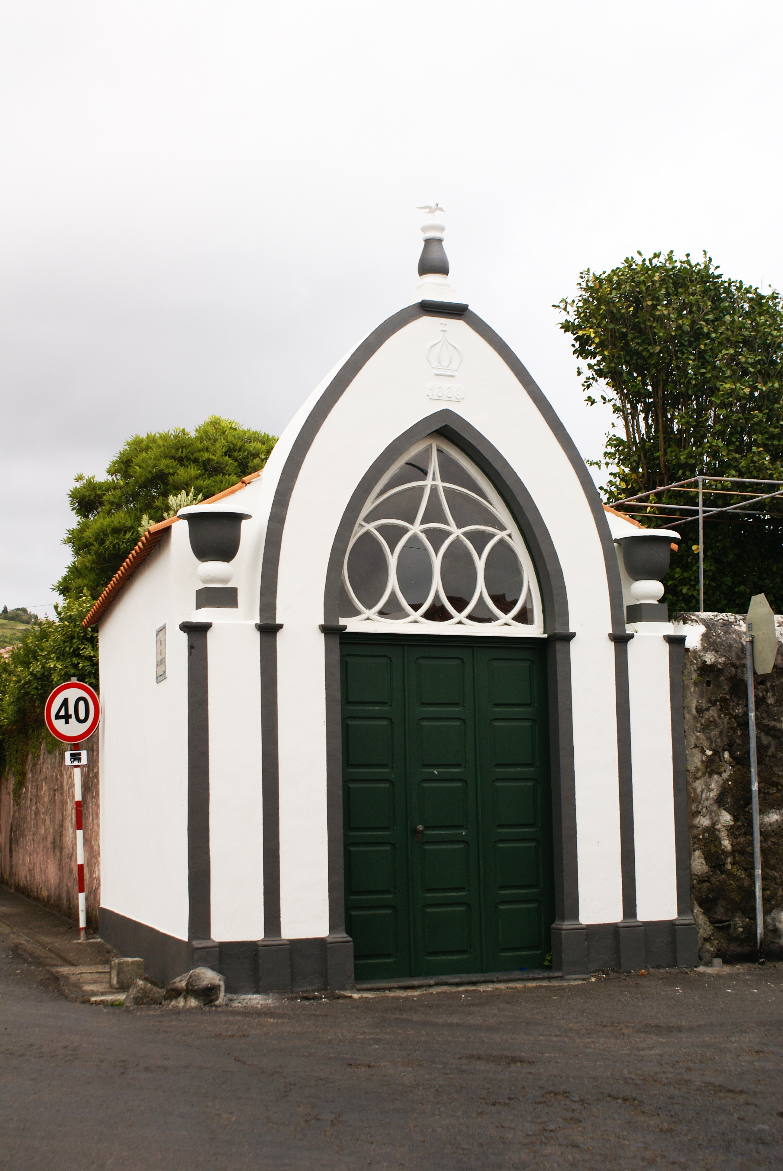 Império do Espírito Santo de Santo Amaro, Santo Amaro, Concelho da Horta, ilha do Faial, Açores, Portugal